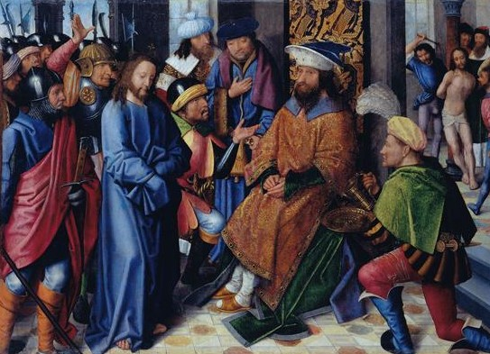 Christ Before Pilate (1530-1537) by an anonymous disciple of Gerard David; It is part of the Polyptych of Esporão Chapel (Cathedral of Évora) and now is on display at Museu de Évora, Portugal.